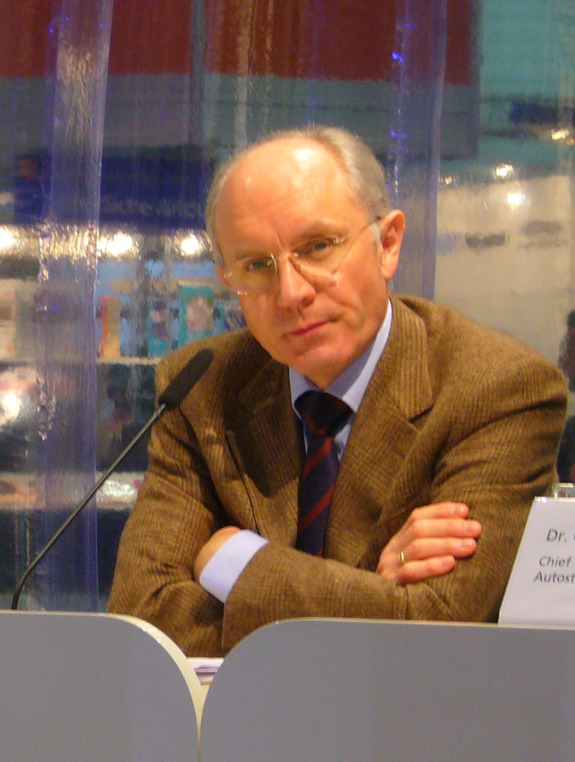 Heinz-Wilhelm Brockmann (vice president of the ZdK). Image taken during a presentation in the Autostadt booth on the 2007 didacta in Cologne, Germany.